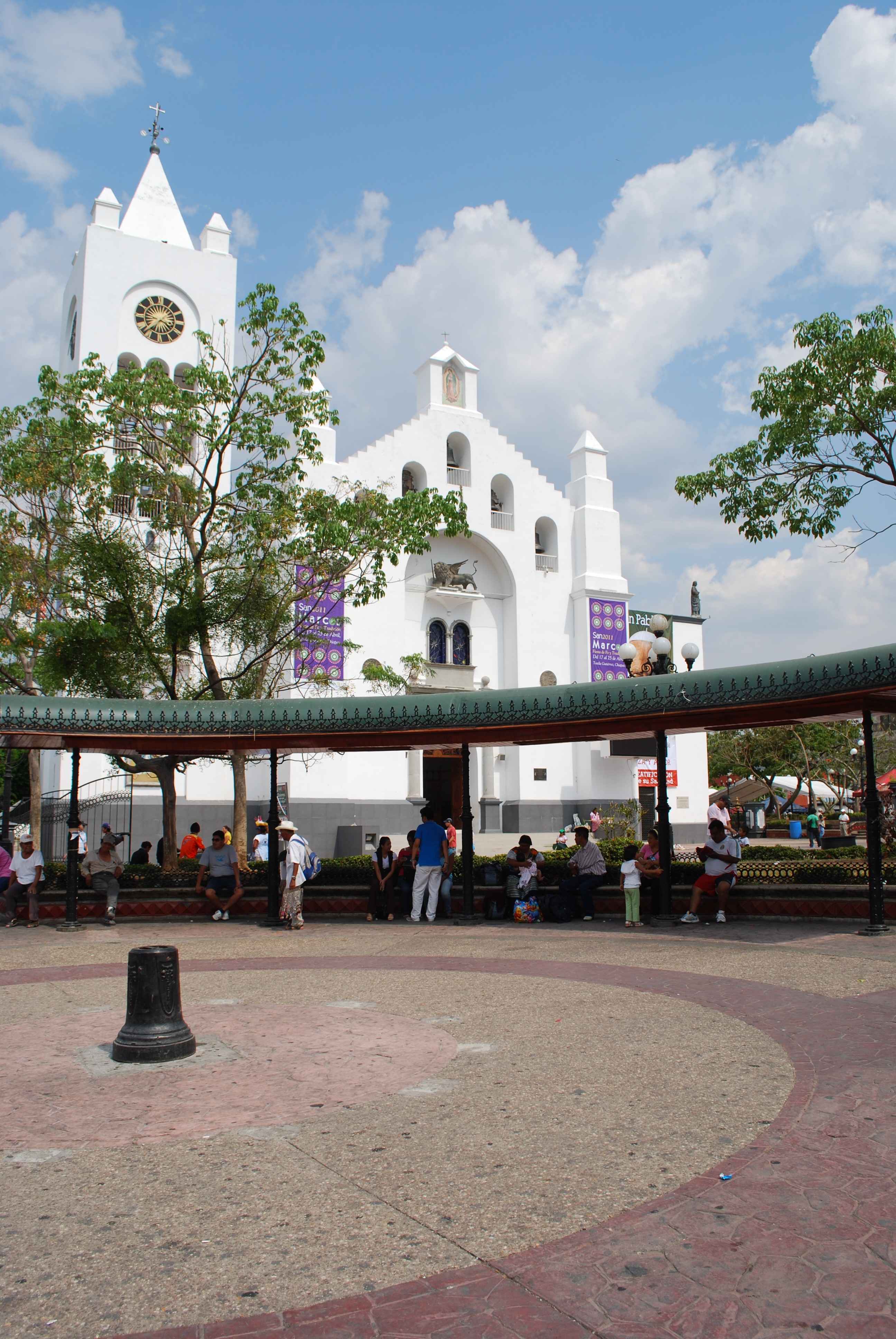 View of the San Marcos Cathedral in Tuxtla Gutierrez, Chiapas, Mexico